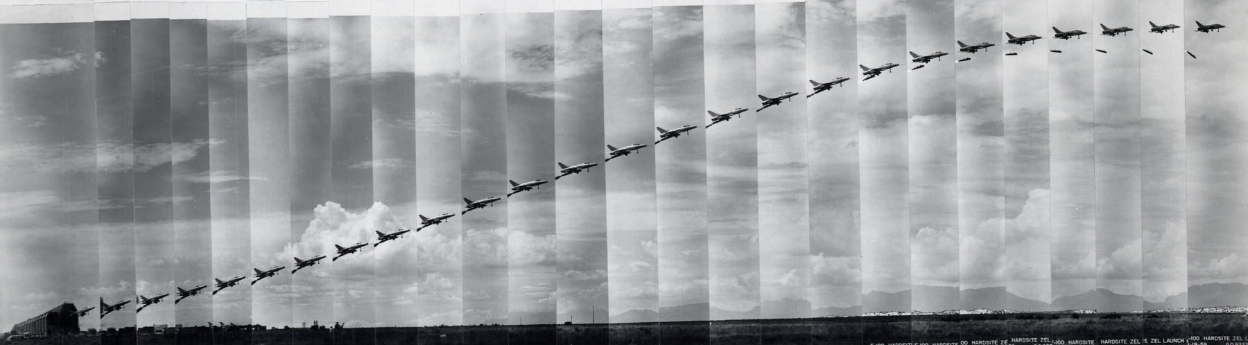 North American F-100D zero length launch